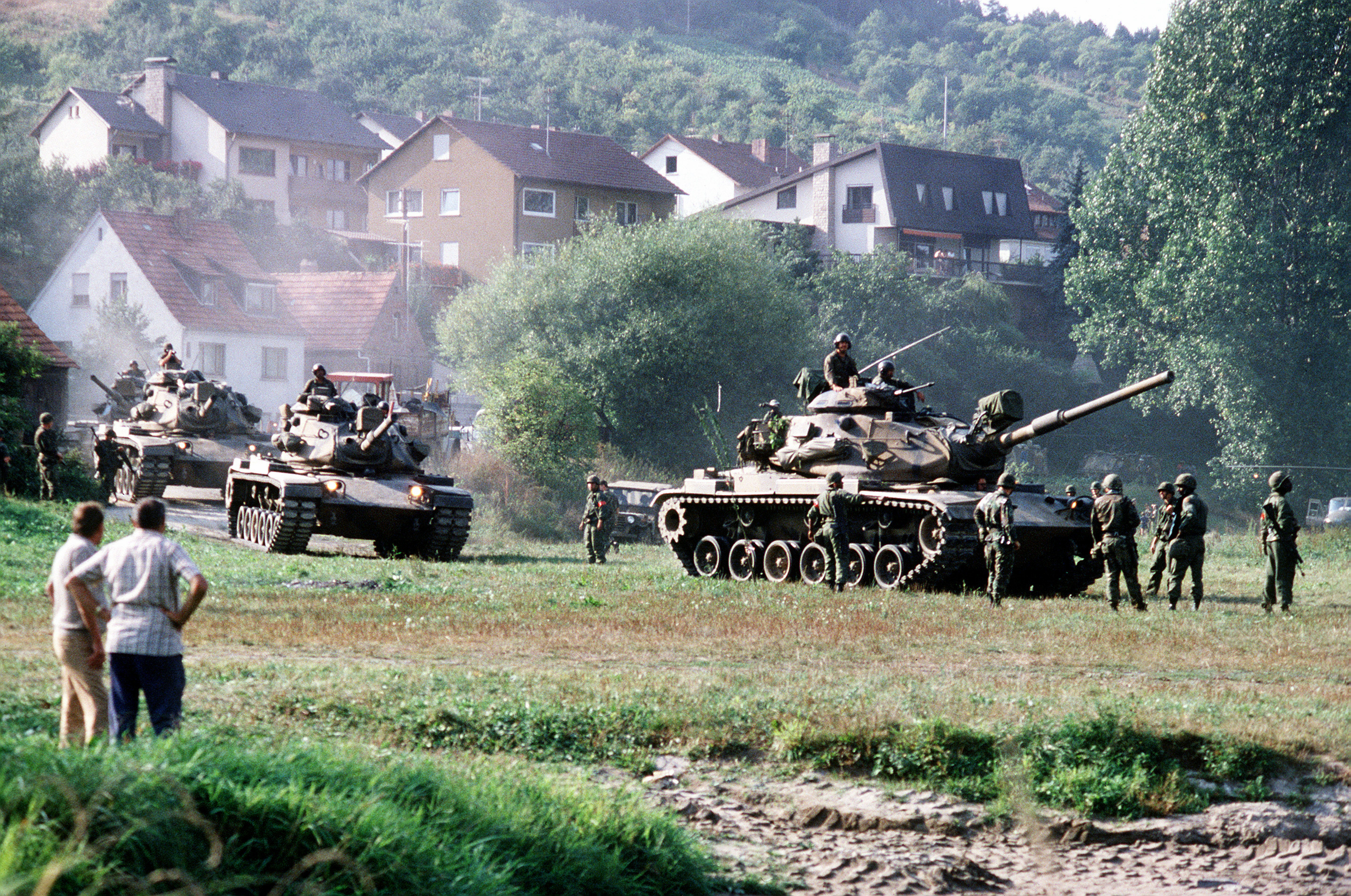 Against a backdrop of a German village, U.S. Army M60 tanks maneuver for a river crossing during, REFORGER '82, the multi-national military training exercise. Exact Date Shot Unknown (NARA caption is erroneous as M551s were phased out before REFORGER '82)